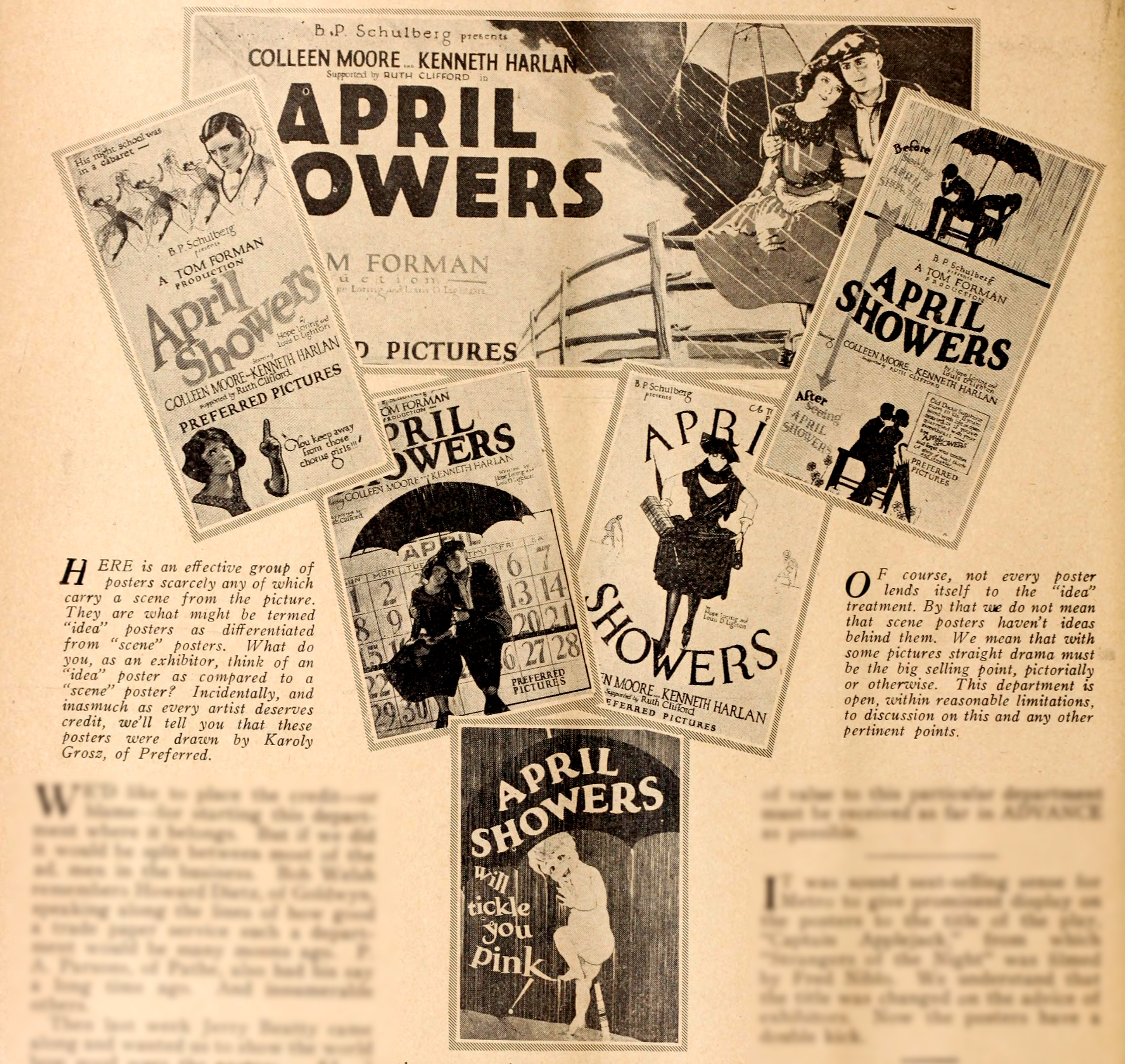 An assortment of six poster designs for the 1923 film April Showers, as reproduced for a magazine article in The Moving Picture World.